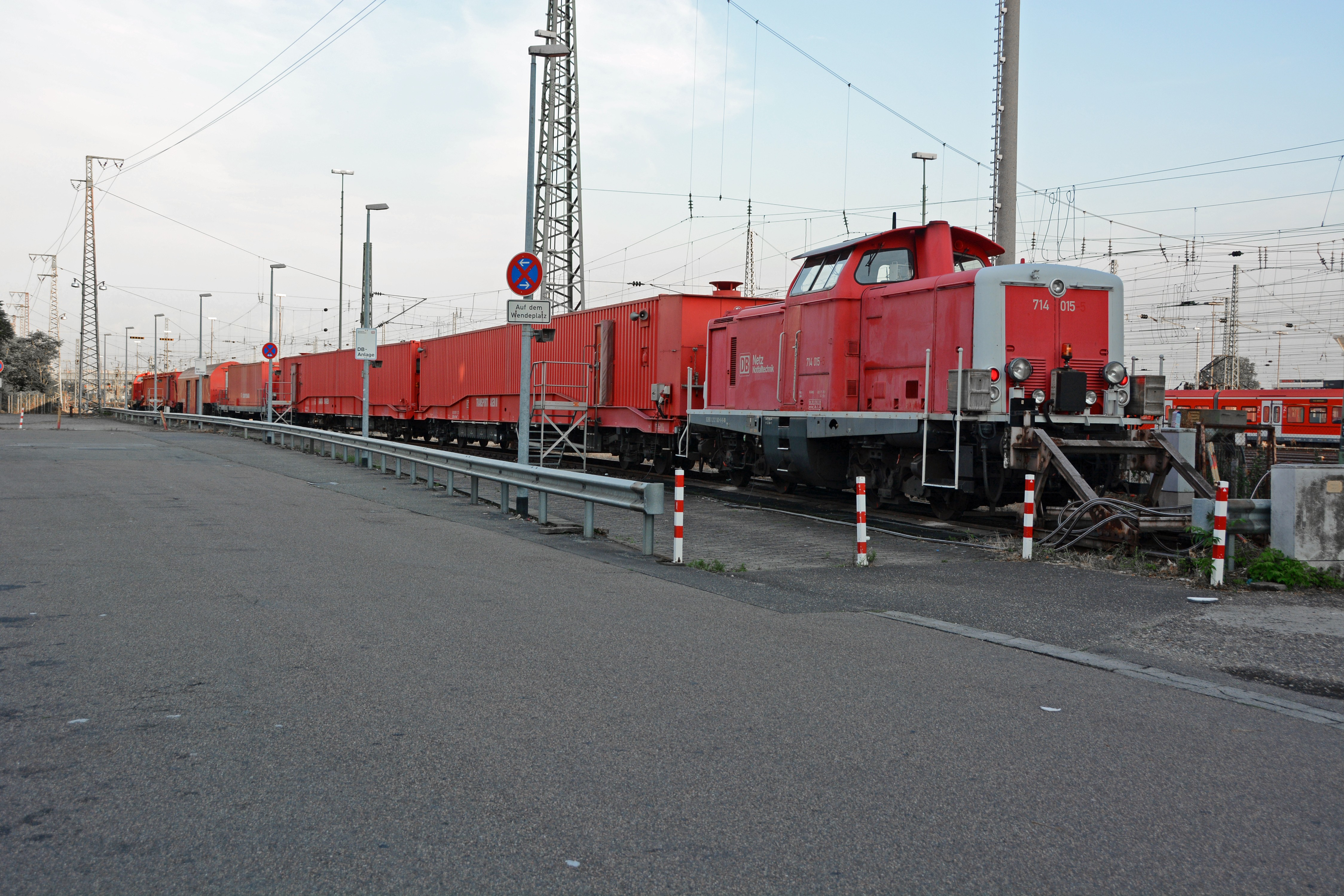 Tunnel rescue train, main station Mannheim, Germany, for cases of emergency in tunnels of the high speed railway Mannheim-Stuttgart, especially Pfingstberg tunnel (Mannheim)